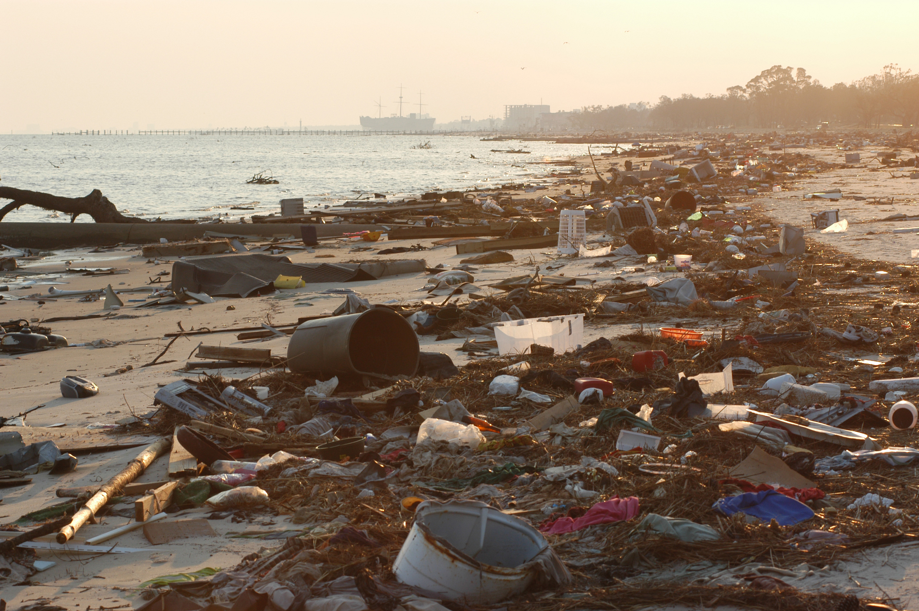 Biloxi, Miss., September 2, 2005 -- Debris left by receding waters on the beach in Biloxi, Miss. Hurricane Katrina caused extensive damage on the Mississippi gulf coast. FEMA/Mark Wolfe